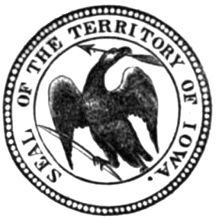 Iowa Territorial Seal. In use 1838-1846. Bill Whittaker (talk) 14:36, 18 May 2009 (UTC)